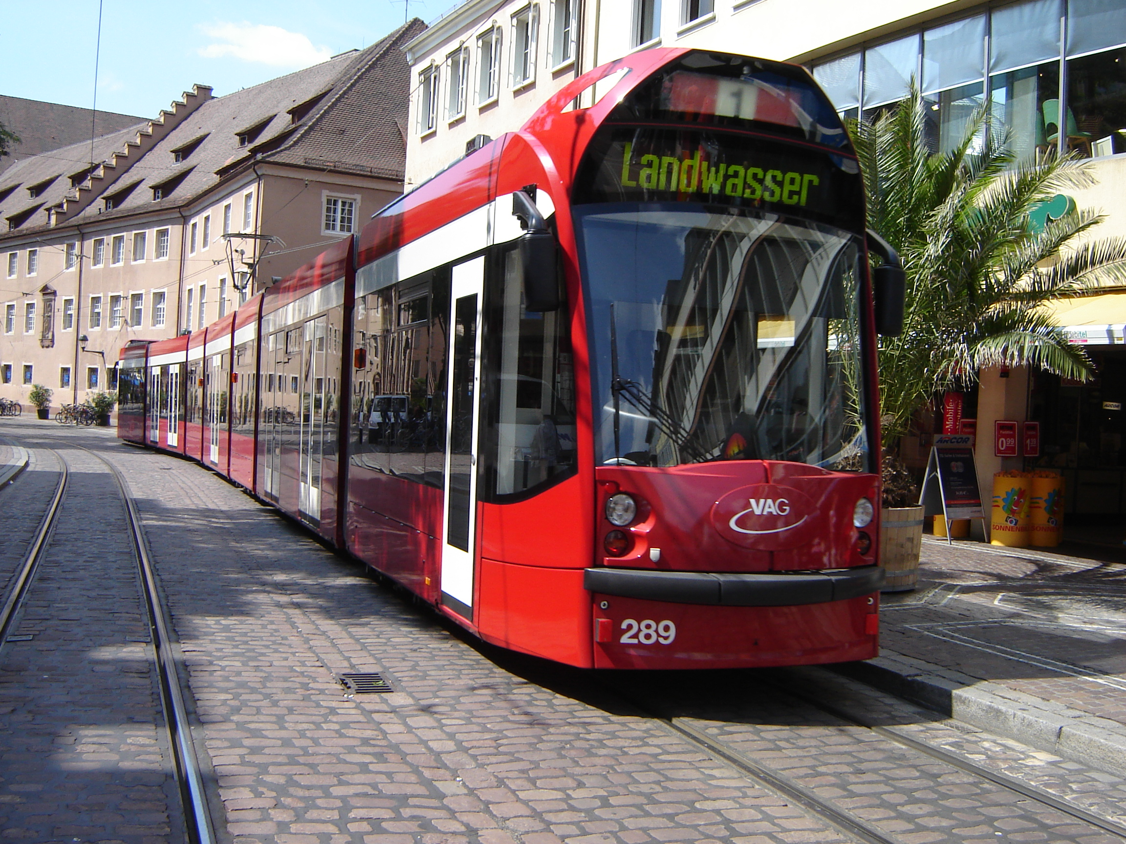 Siemens Combino tram (#289) from Freiburg, Germany. Built 2003.